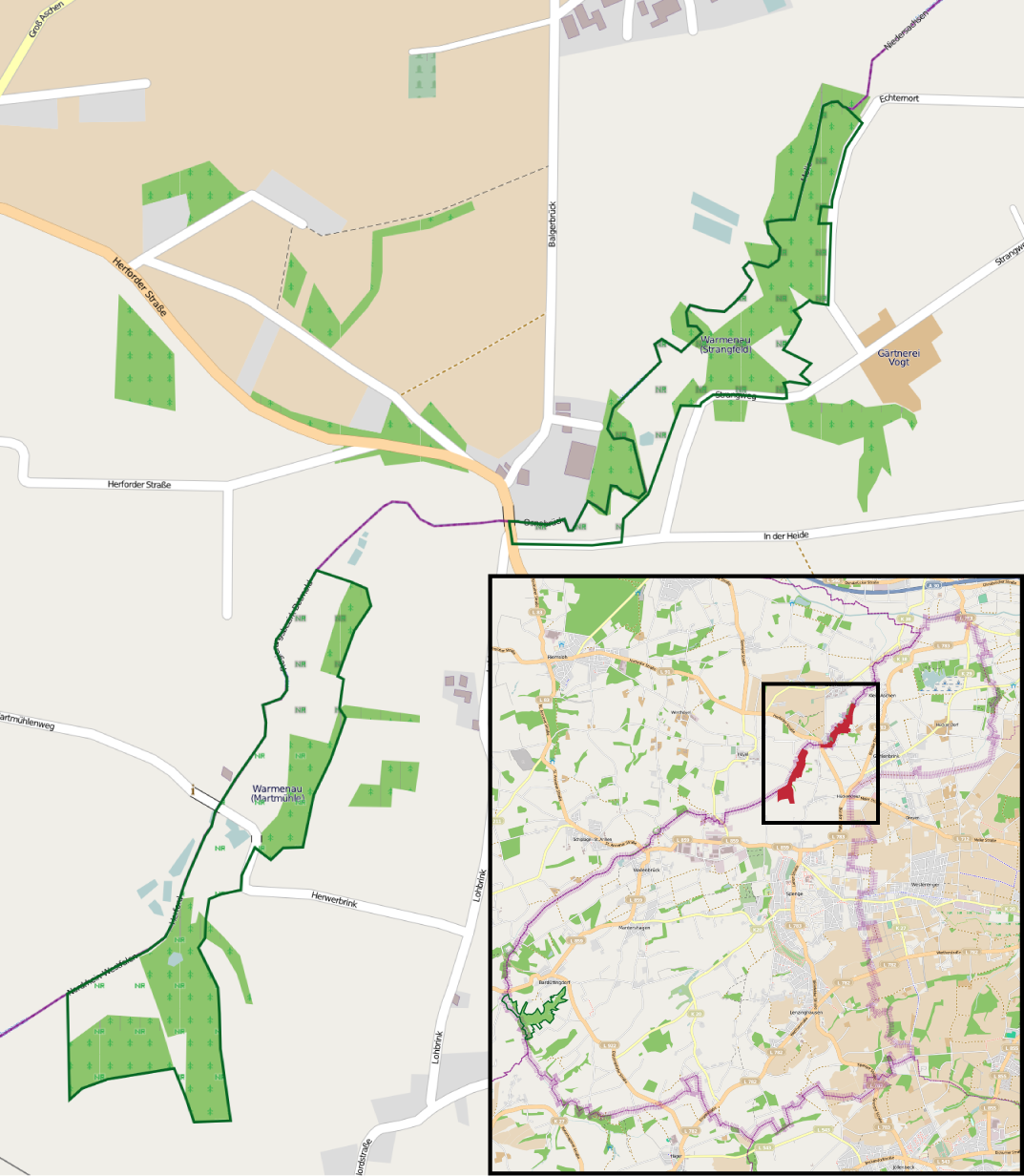 Spenge - Nature reserve Warmenau - overview mapNumber and borders of nature reserves are subject to frequent change. In order to facilitate reproduction of this map from openstreetmap, the following data is stored here: export boundaries: north: 52.175; west: 8.477; east: 8.504; south: 52.156; mapnik svg, scale 1:10.000 nature reserve boundary stroke weight 10.0; nature reserve stroke color: R 5, G 102, B 36; municipality border stroke weight: as found